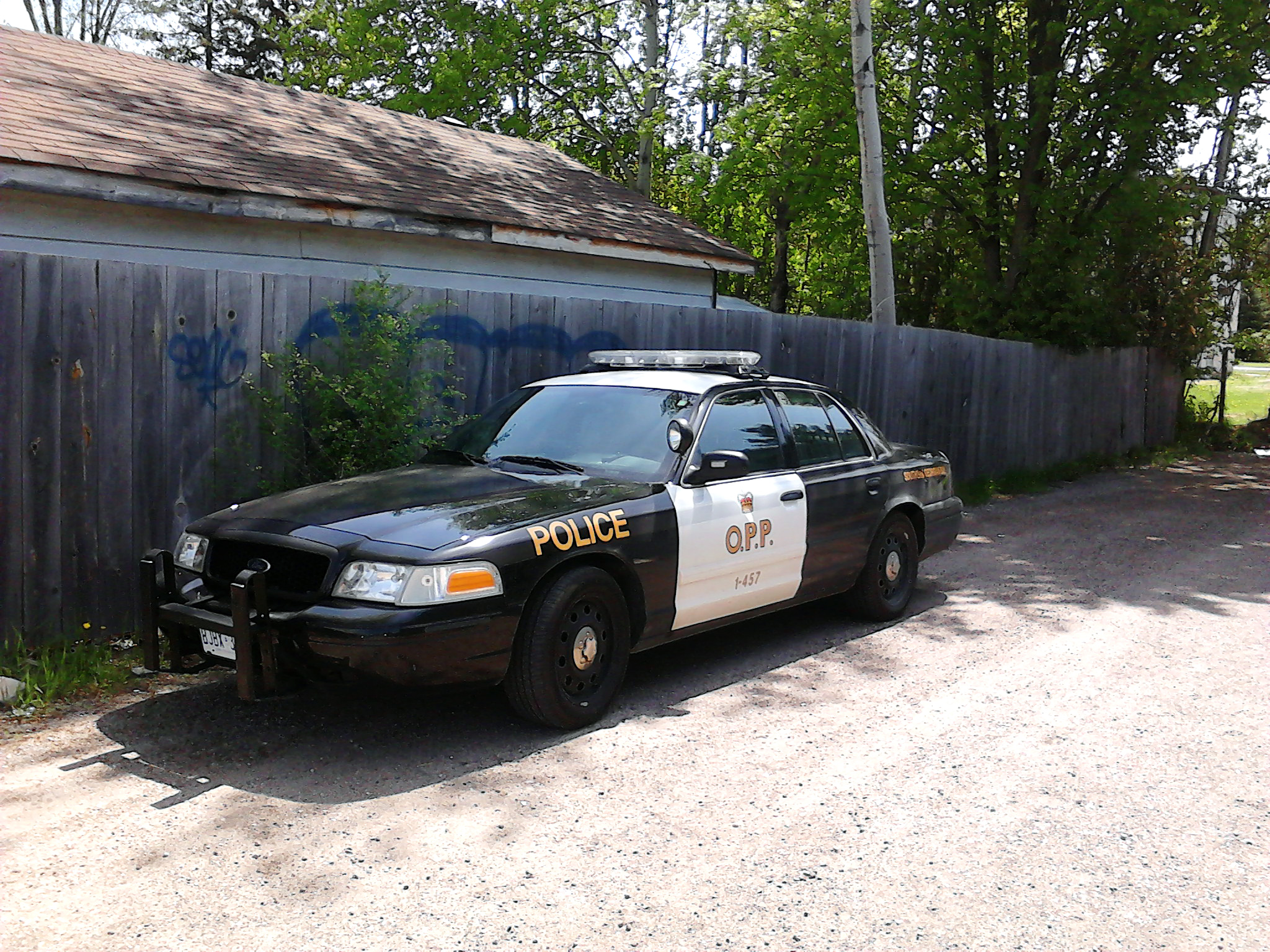 current Ontario Provincial Police cruiser (2011)